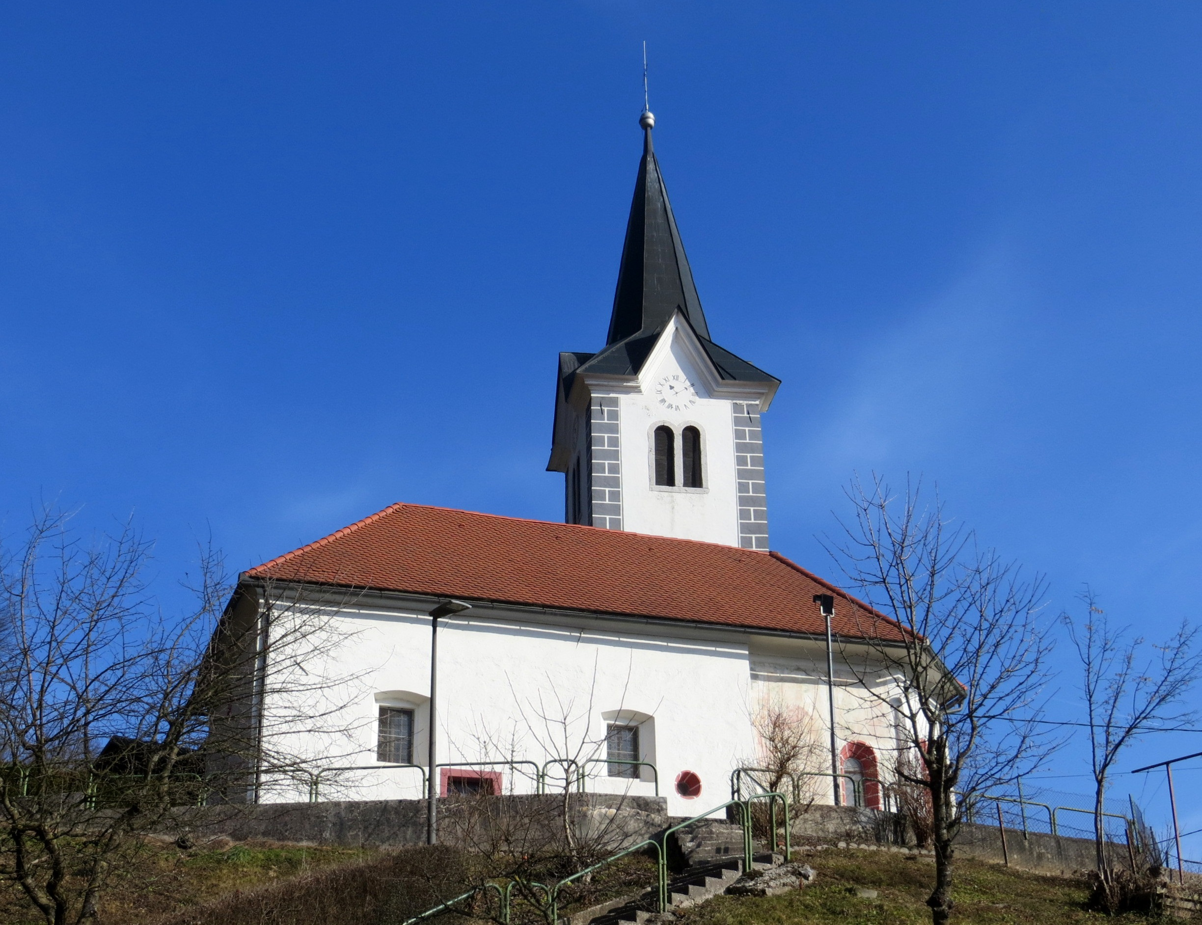 Saint Ursula's Church in Lanišče, Municipality of Škofljica, Slovenia